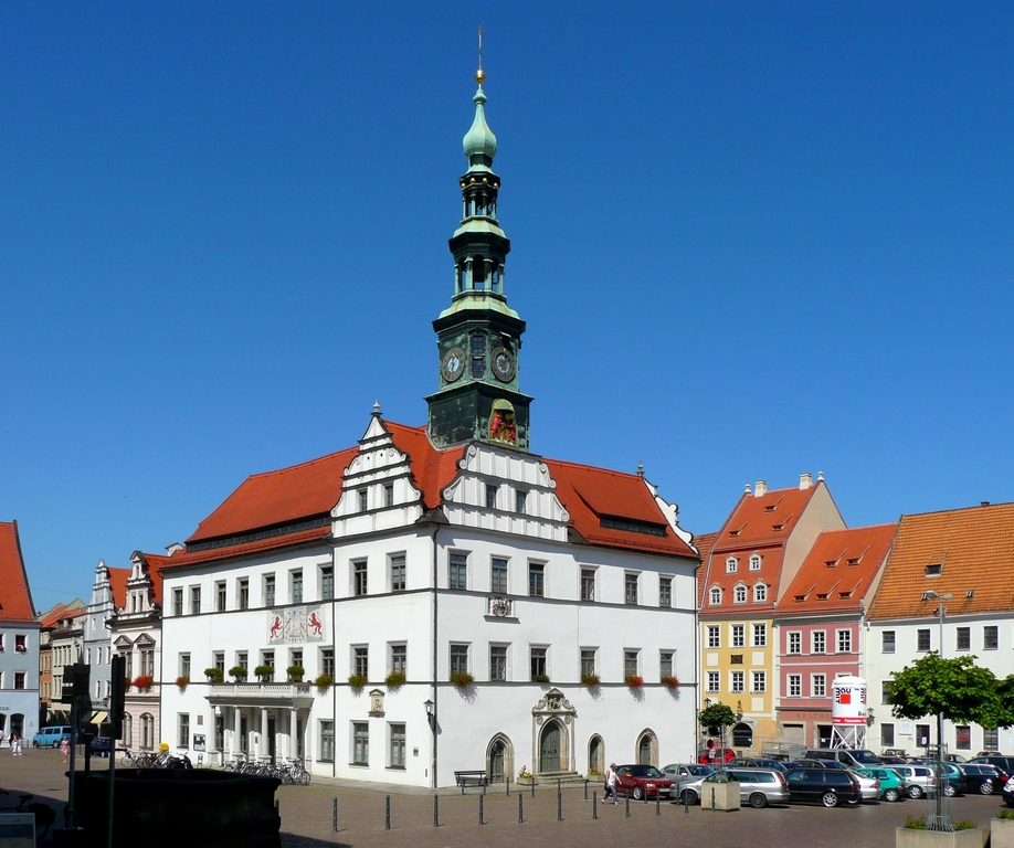 Pirna, Am Markt No. 1/2, town-hall, cultural heritage monument.